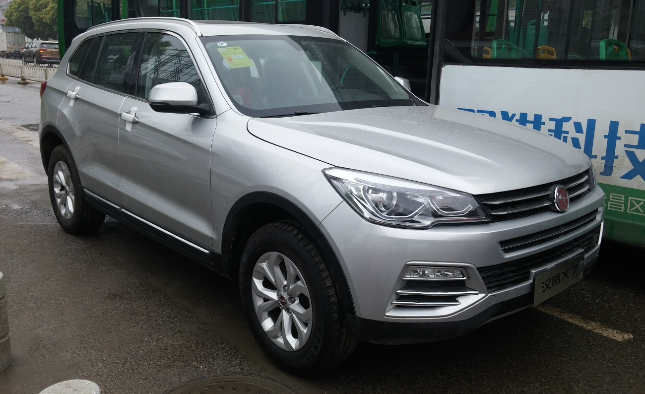 Hanteng X7 photographed in Wuhan, Hubei province, China.